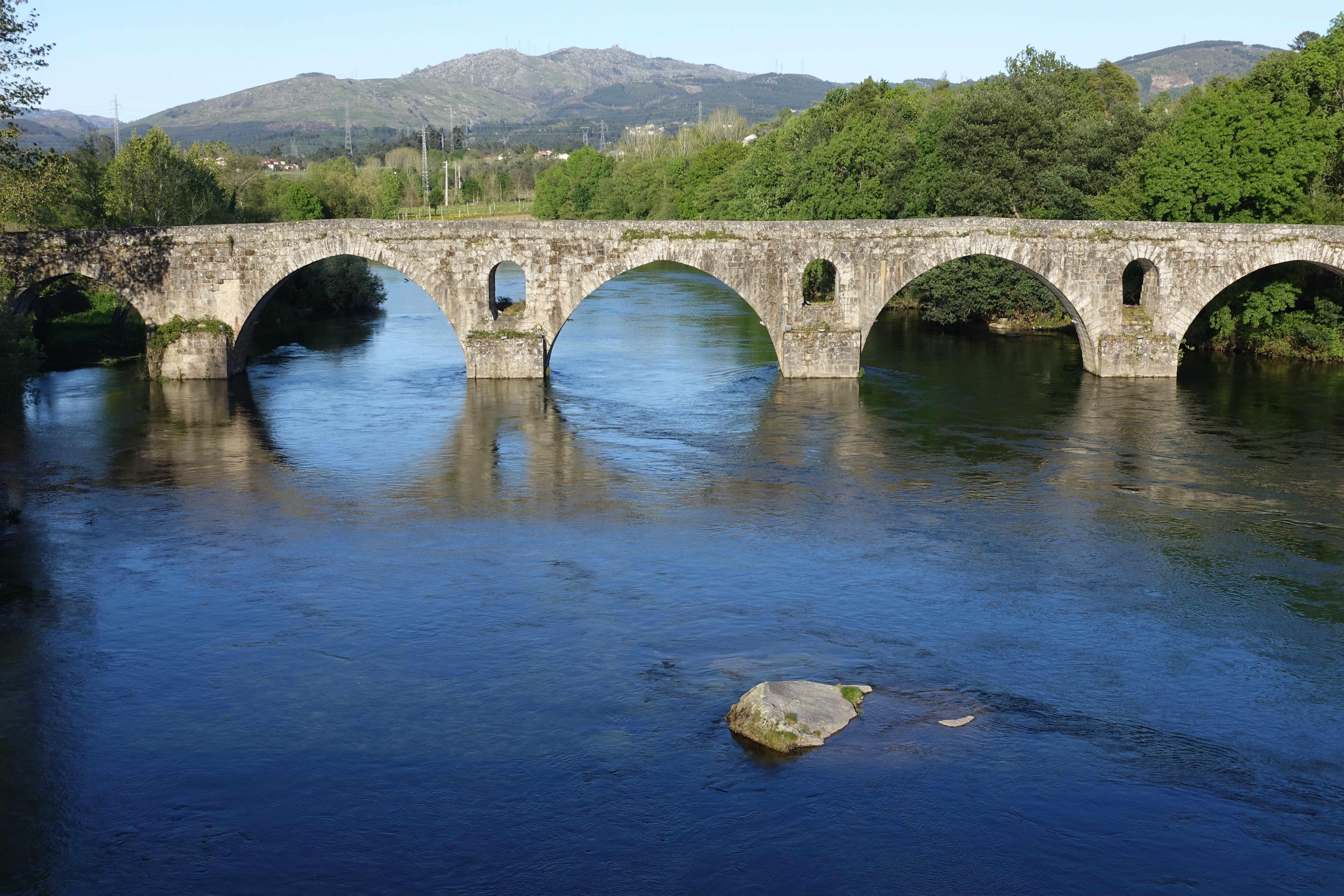 Ponte do Porto over Cávado River, Portugal.